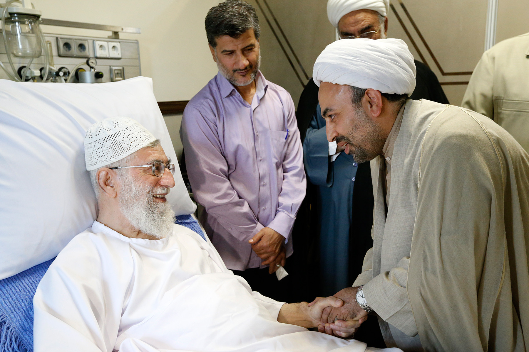 Artists and writers visiting Ali Khamenei in hospital